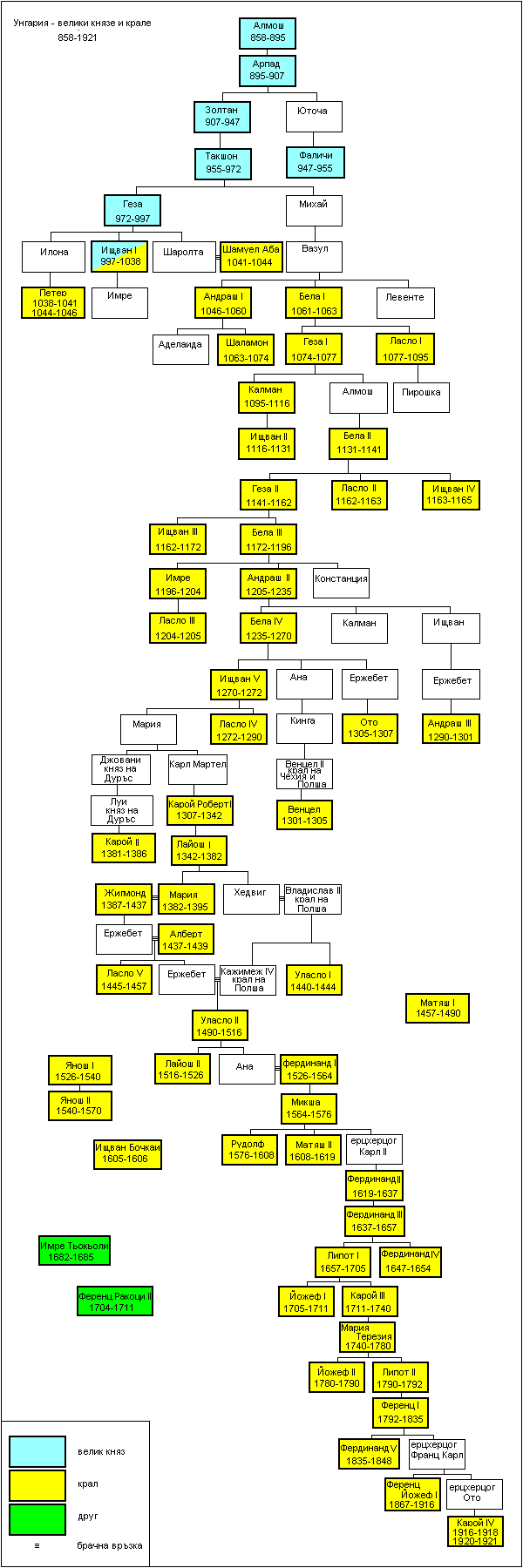 Rulers of Hungary (in Bulgarian)